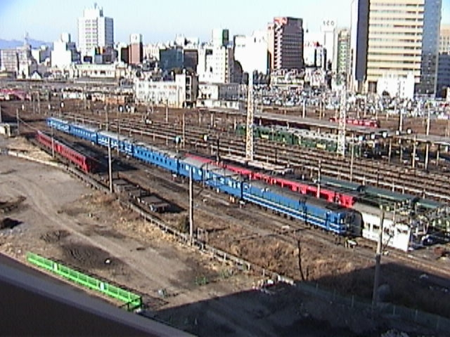 Photograph at JRKyushu Hohi-Kyudai Rail yard in railway in Oita City, Oita Prefecture, Japan